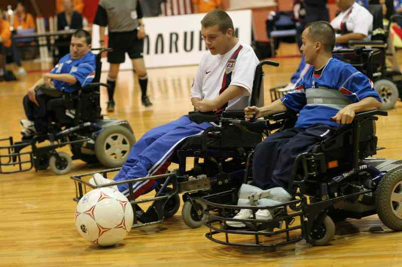 US versus France in final of 2007 FIPFA World Cup, Tokyo, Japan.